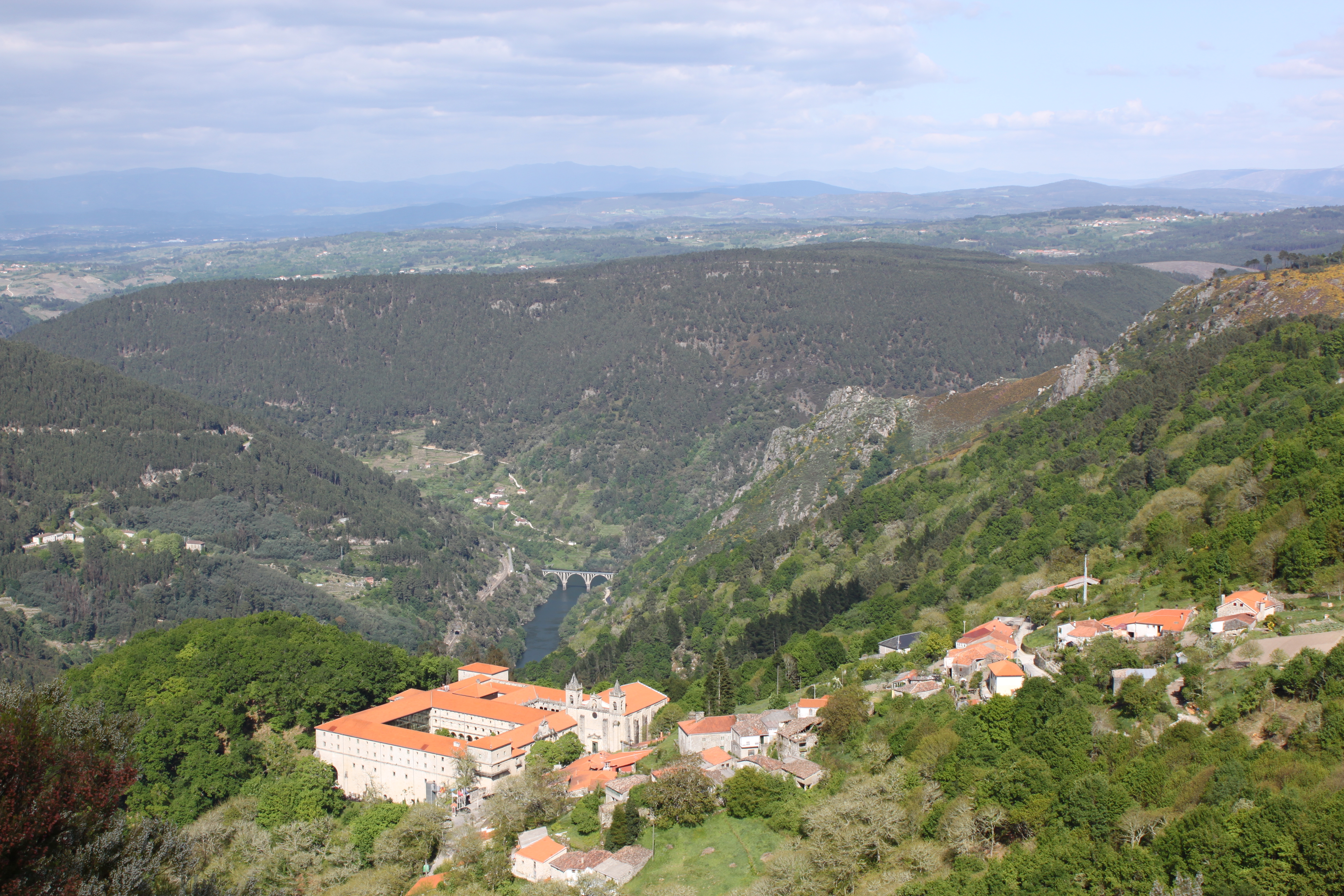 Monastery of Santo Estevo de Ribas de Sil, near Luintra, Galicia, Spain